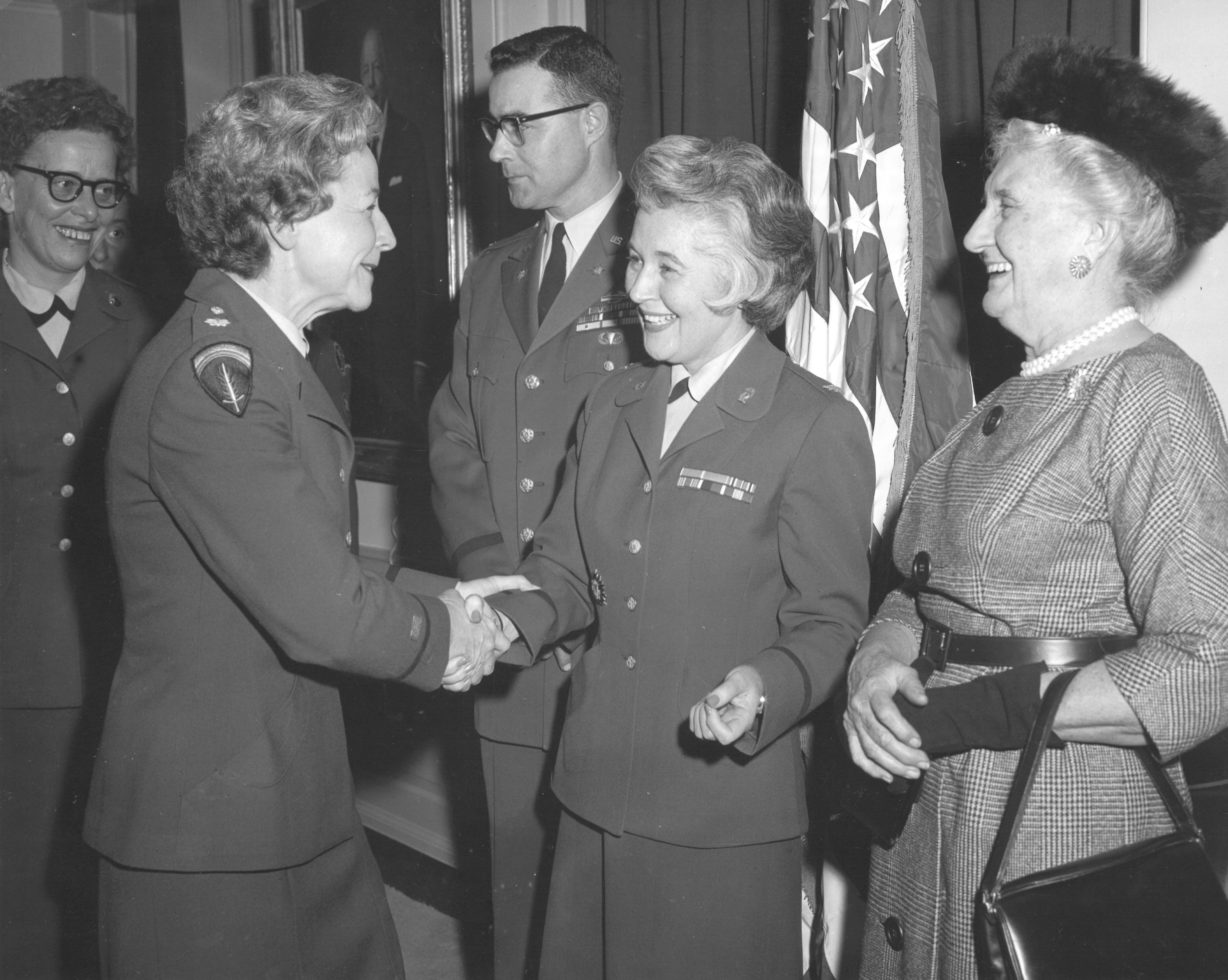 From the back of the photo: Col. Mary L. Milligan, Director of the Women's Army Corps, was sworn in to her second term of office during a ceremony at the Pentagon. Photo by Mort Friedman, U.S. Army Photographic Agency, Washington, D.C.